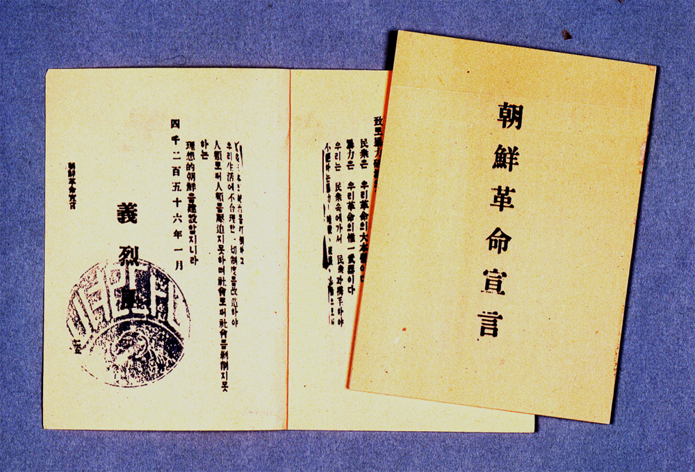 The Declaration of Joseon Revolution